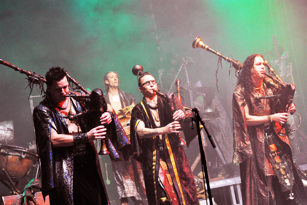 German musical group Corvus Corax perfroming at Warszawa Cross Culture Festival in September 2011.